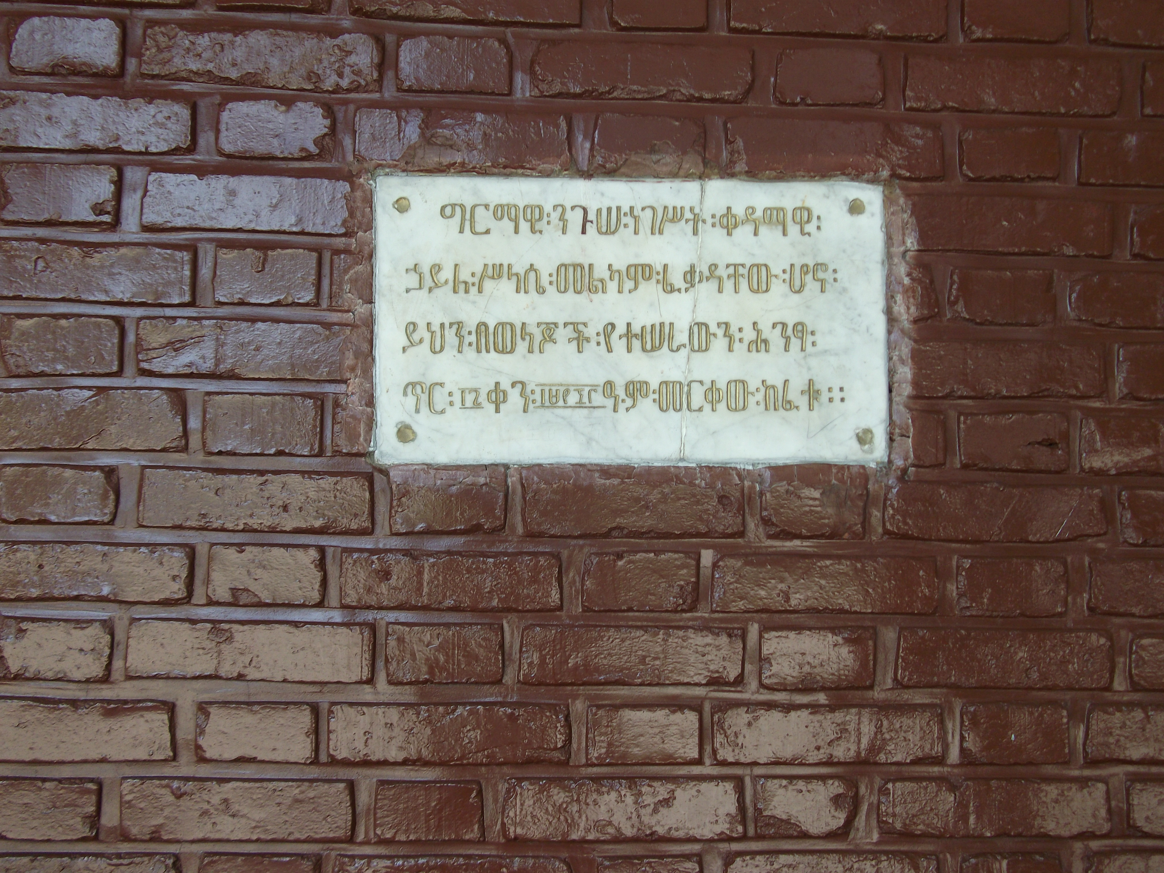 This is a plaque at Saint Joseph School Addis Ababa, Ethiopia.